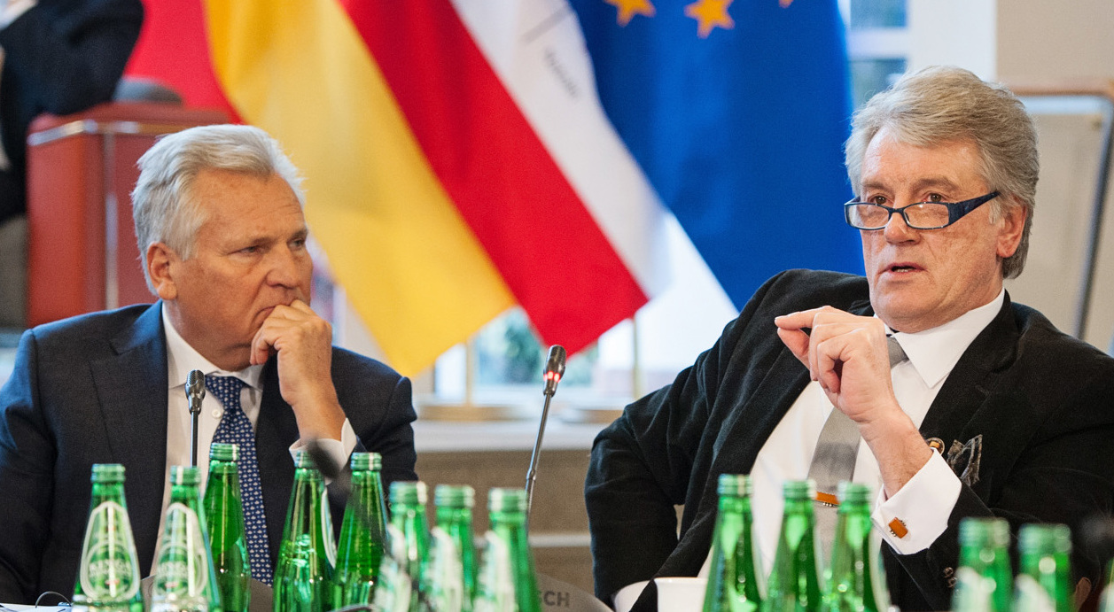 Ewa Osniecka Tamecka, Vice-Rector of the College of Europe Natolin campus